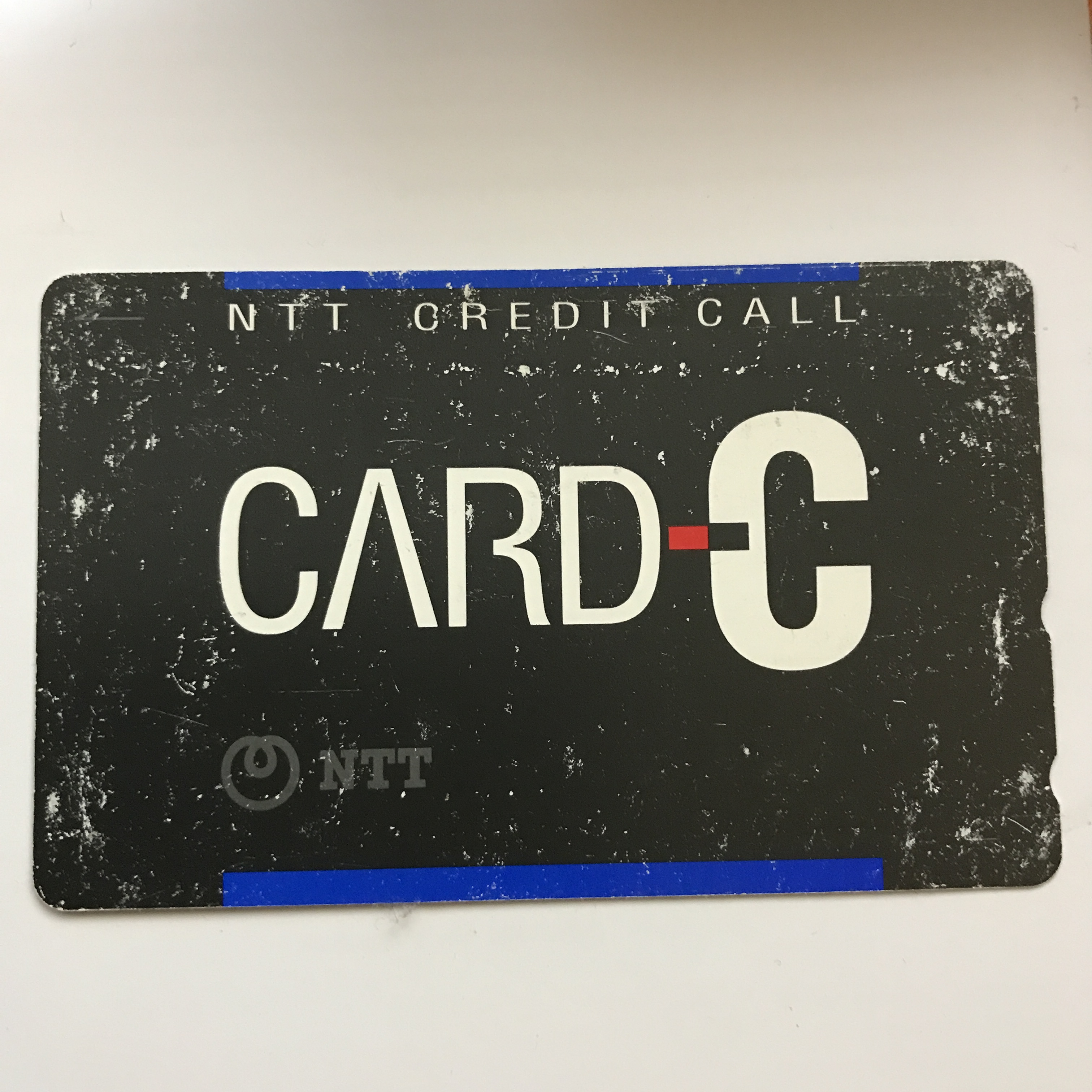 Postpaid telephone card